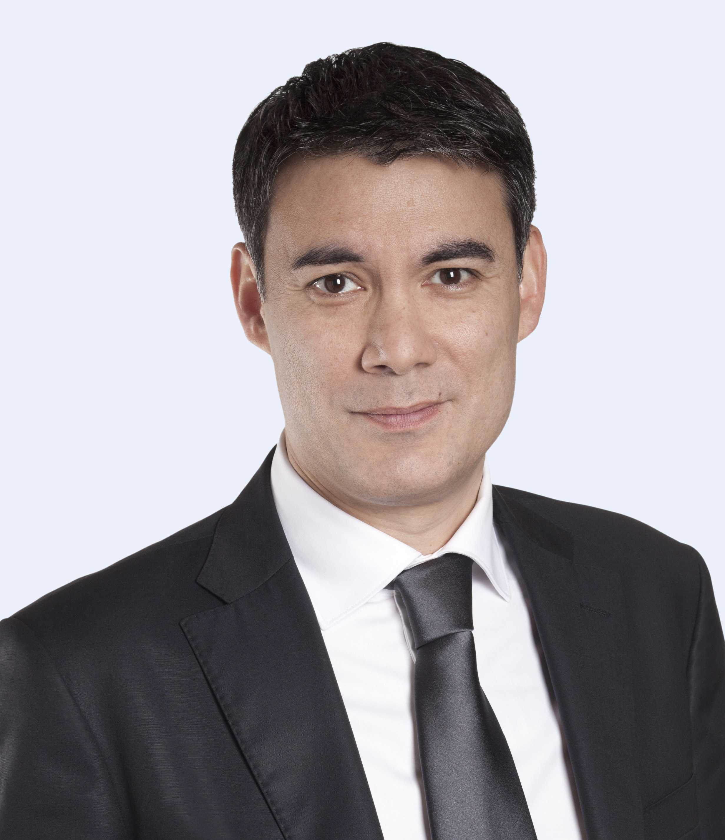 Portrait of Olivier Faure, deputy in the 11th district of Seine-et-Marne, France